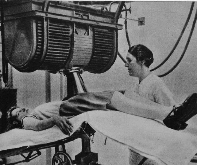 Radiation therapy with a high power x-ray tube in 1930 at National Cancer Institute in Milan, Italy